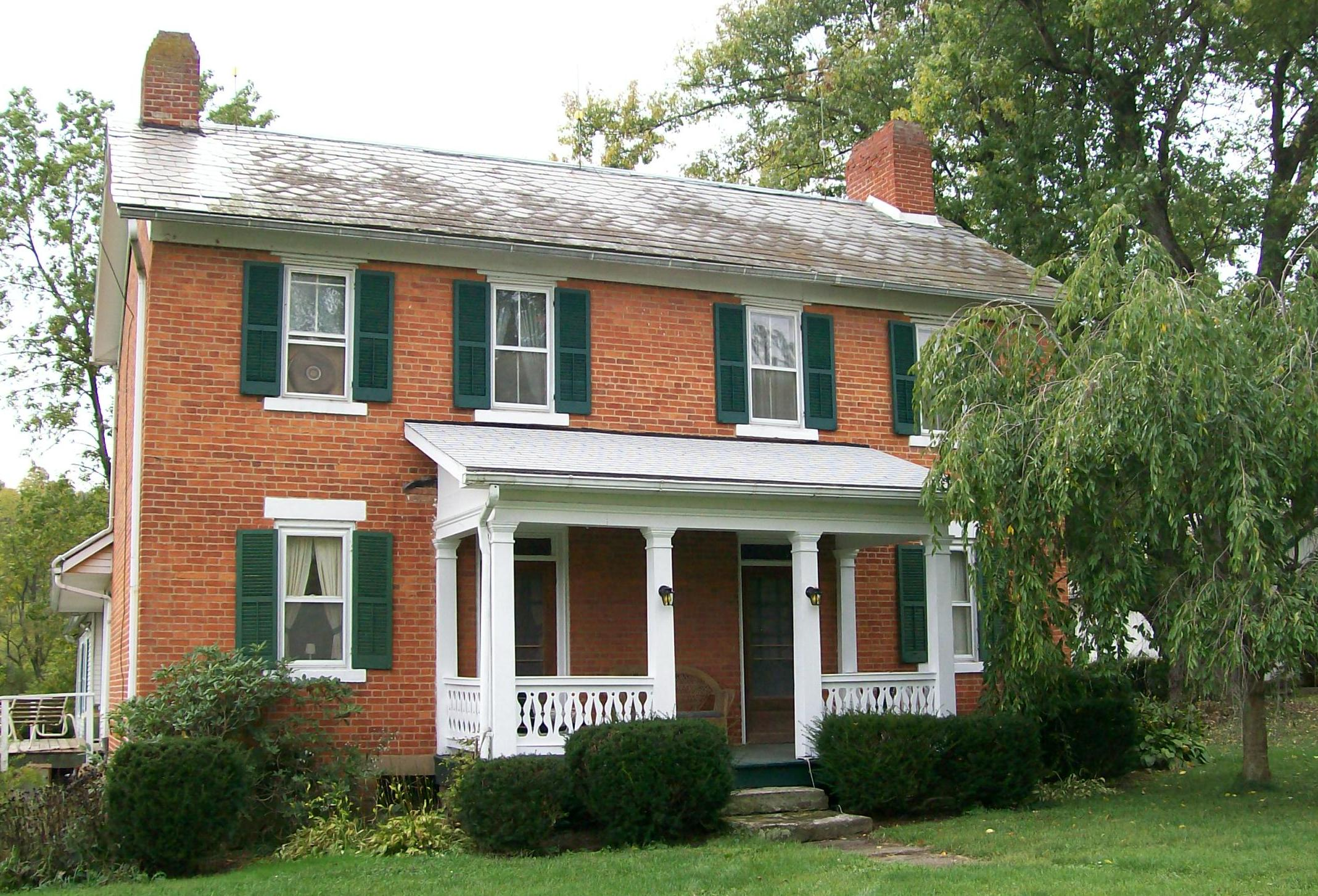 The Samuel Danford Farm House south of Seneca Lake in Ohio